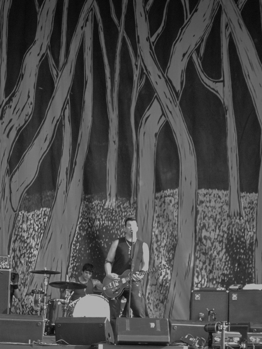 Josh Homme and Joey Castillo performing with Queens of the Stone Age in Hyde Park, 17/06/06.